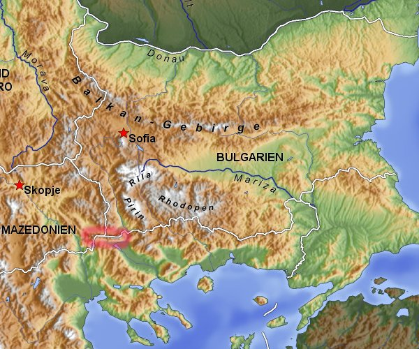 location of Vitosha mountain in Bulgaria